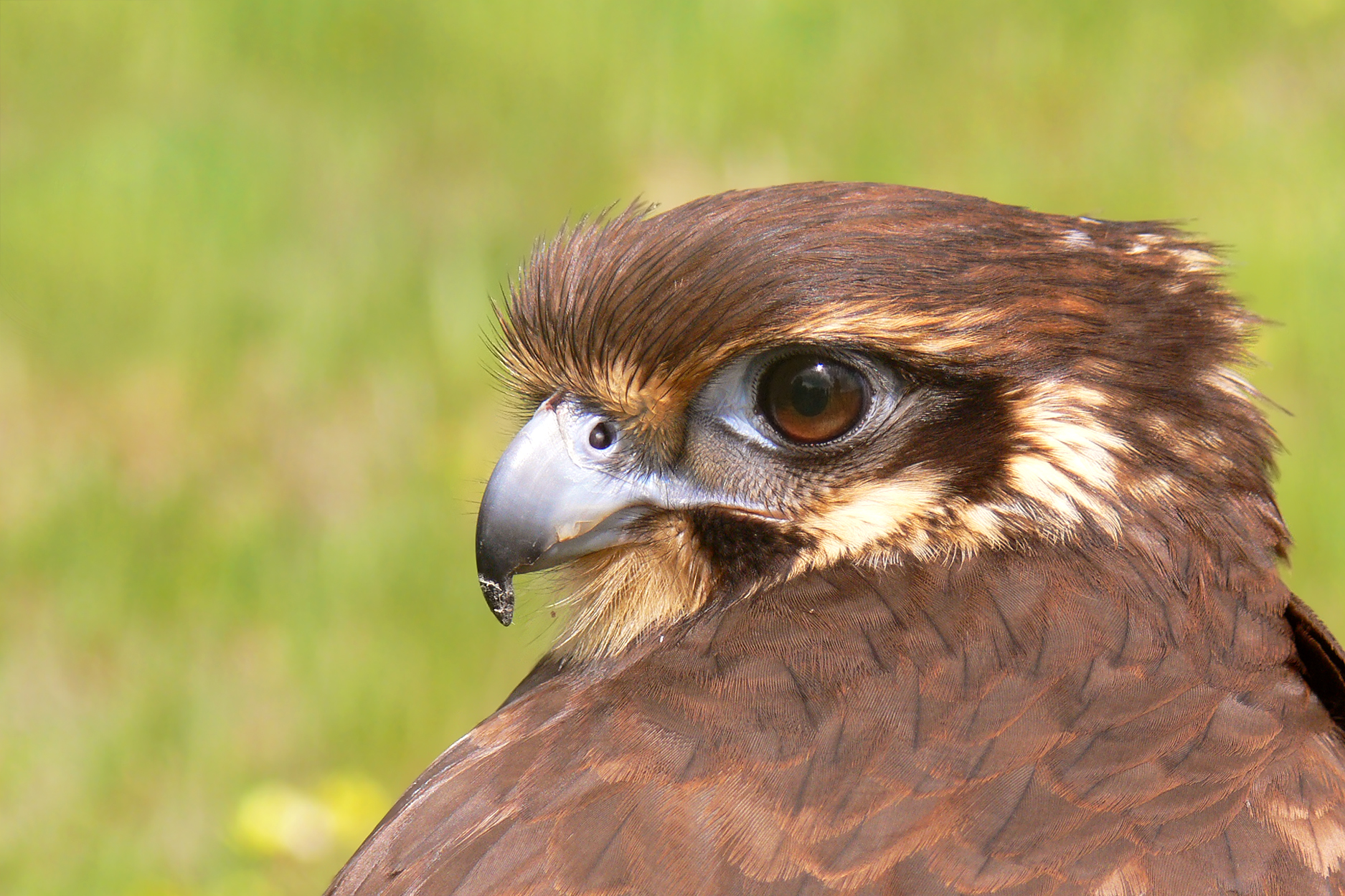 Molly the Brown Falcon Falco berigora, from Full Flight Conservation Centre Flemington, Victoria taken at a raptor flight display in south-east Australia.